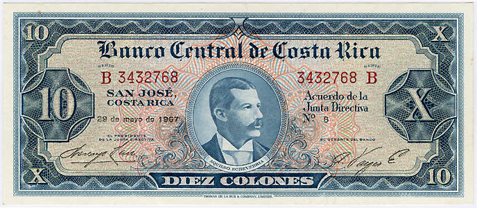 Costa Rica banknotes 10 Colones banknote of 1967, Banco Central de Costa Rica, Portrait of Aquileo J. Echeverría Zeledón, printed by Thomas De La Rue & Company, Limited, London.